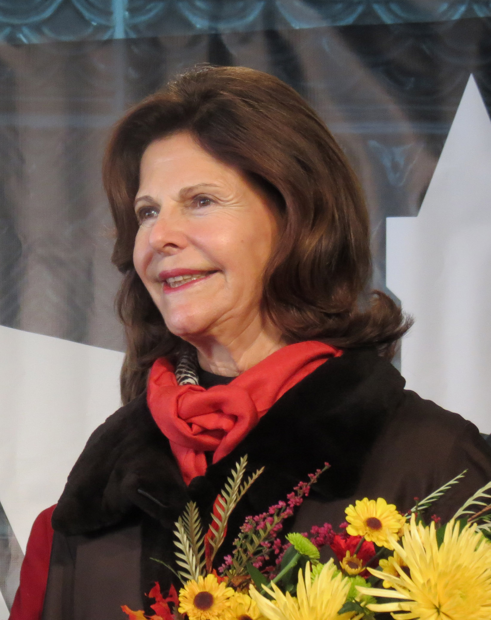 Queen Silvia of Sweden Celebration of the Gustavus Adolphus College's 150th anniversary